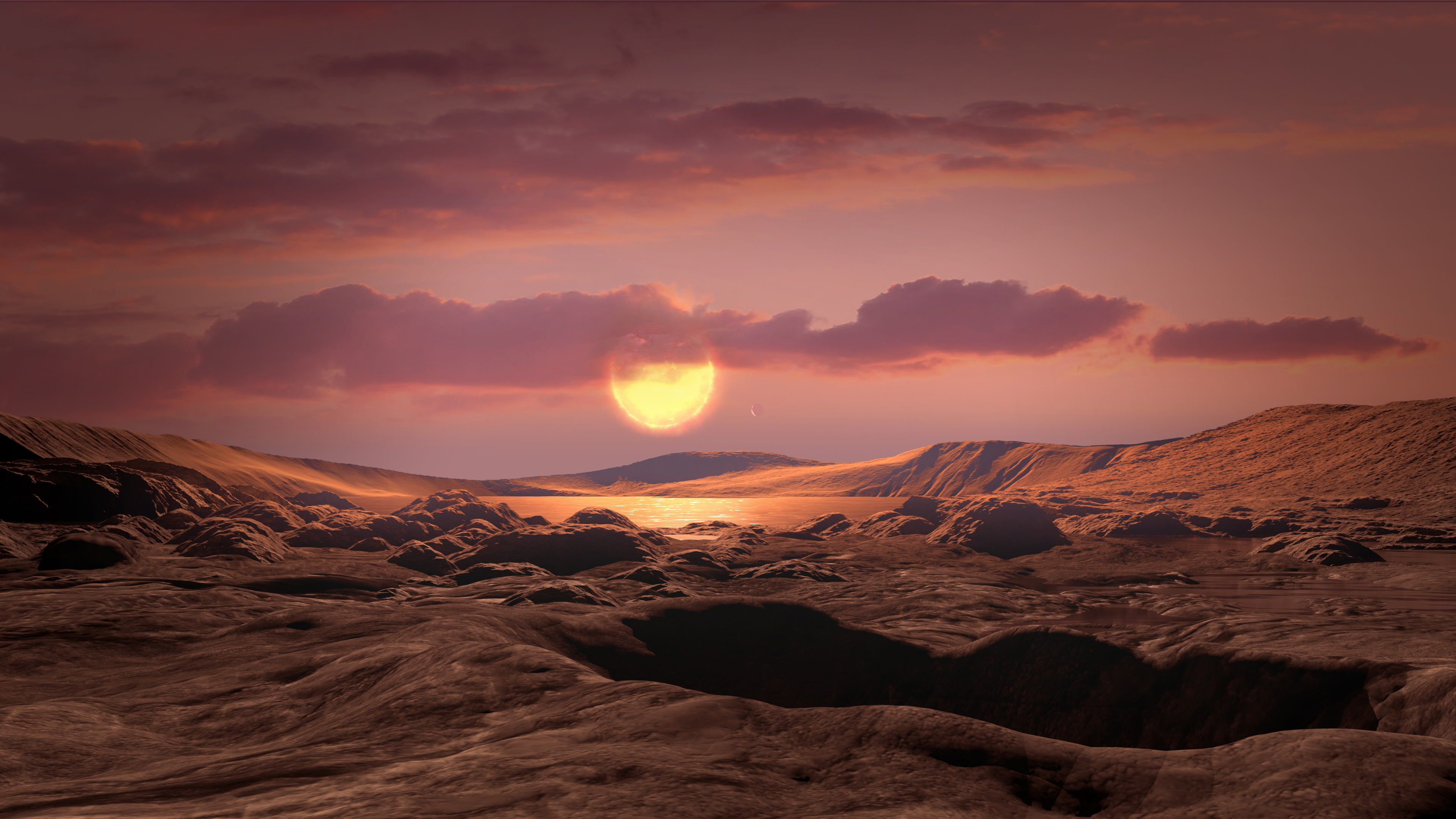 PIA23689: Kepler Planet 1649c Artist's Illustration From Space This artist's concept shows exoplanet Kepler-1649c orbiting around its host red dwarf star. This exoplanet is in its star's habitable zone (the distance where liquid water could exist on the planet's surface) and is the closest to Earth in size and temperature found yet in Kepler's data. For more information on the Kepler mission, visit For more information about exoplanets, visit